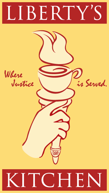 LK logo